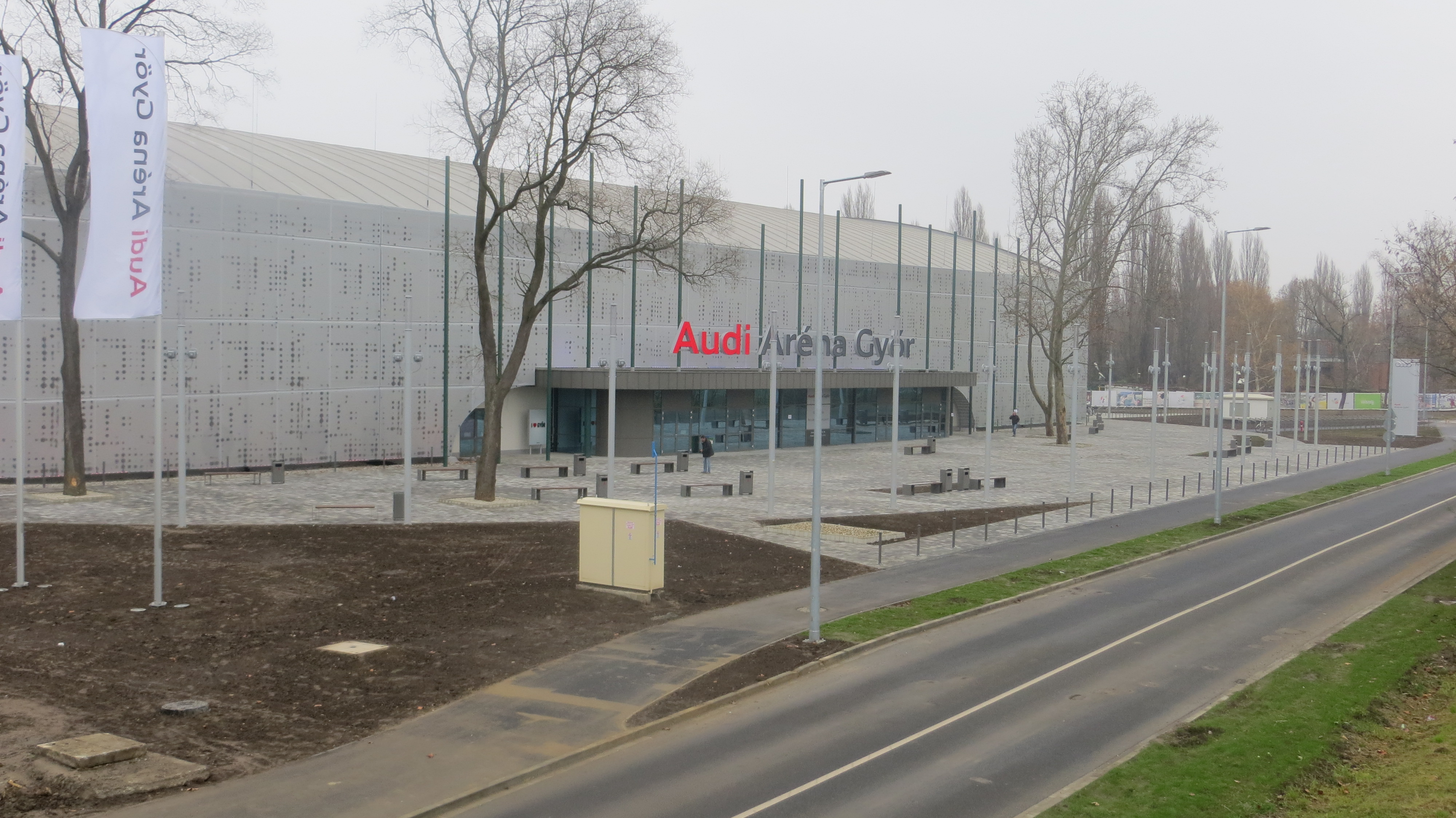 Audi Aréna Győr